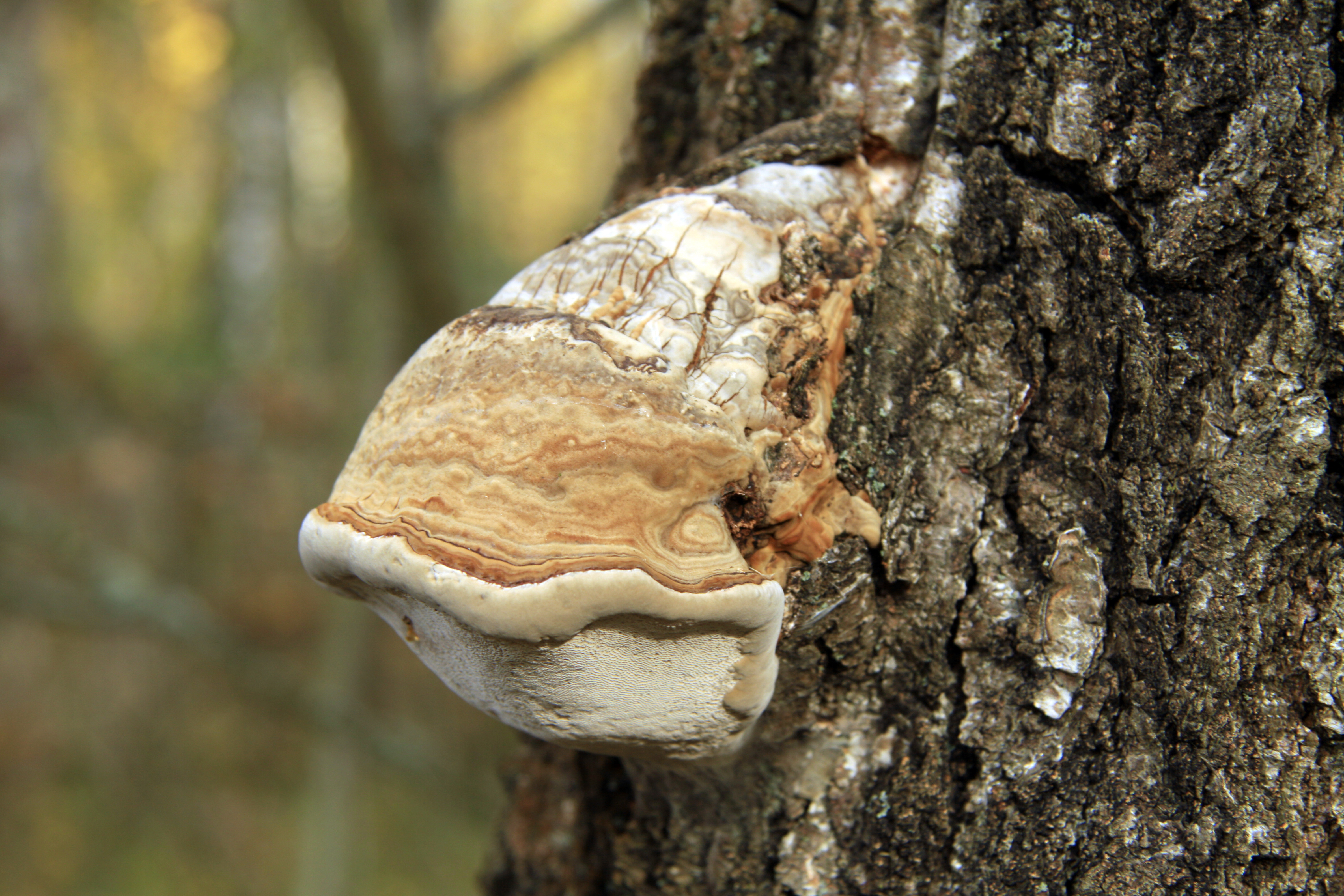 Fomes fomentarius in national nature reserve Řežabinec a Řežabinecké tůně in autumn 2011 in Písek District, Czech Republic